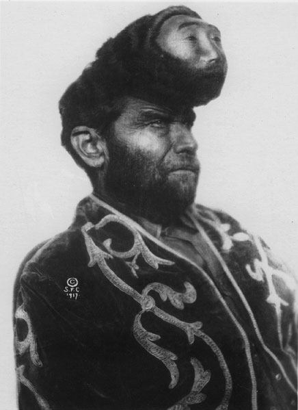 Photographic portrait of Pasqual Pinon.